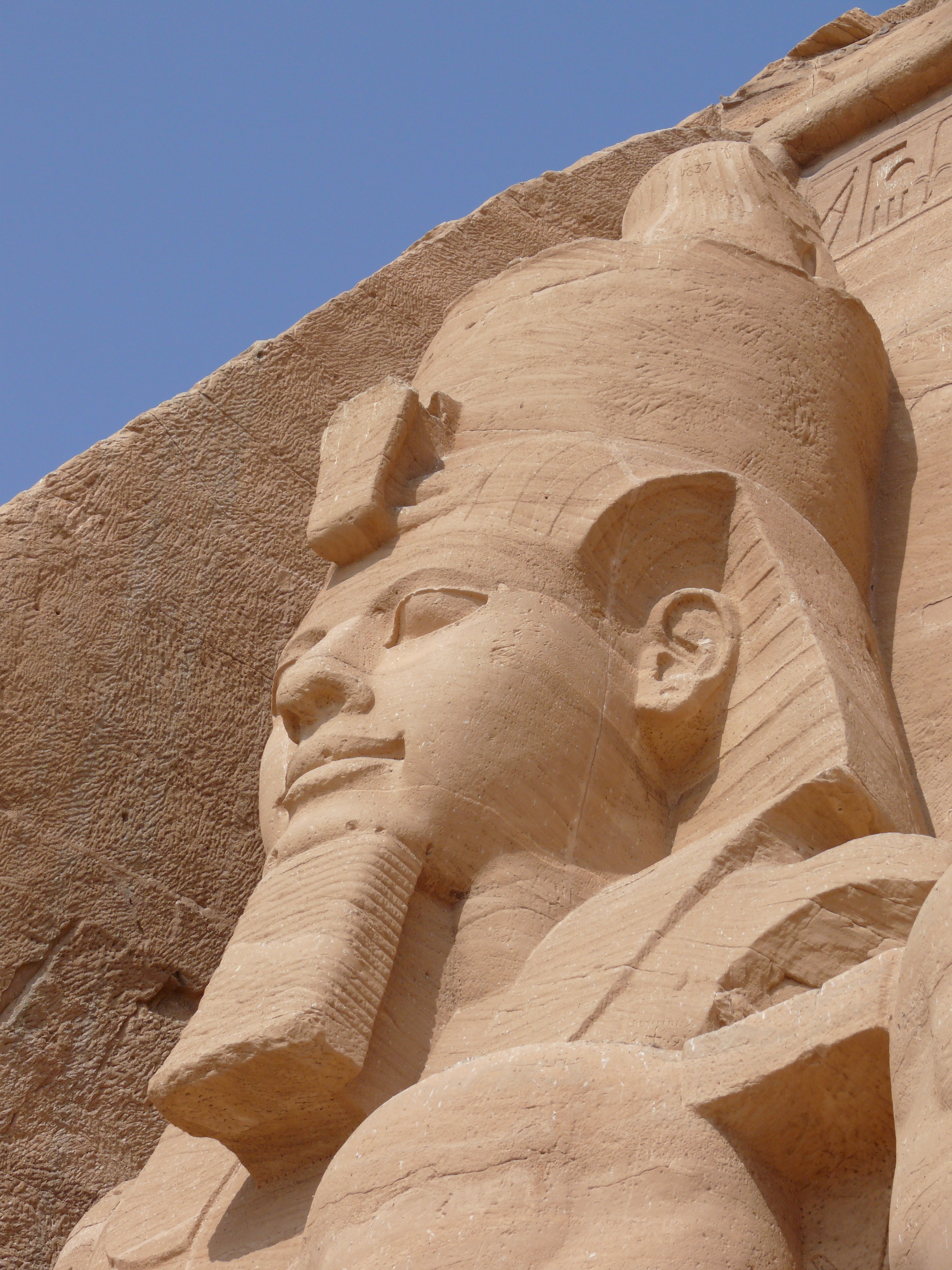 Abu Simbel - Great Temple of Ramesses II, close-up of one of the colossal statues of Ramesses II, wearing the double crown of Lower and Upper Egypt